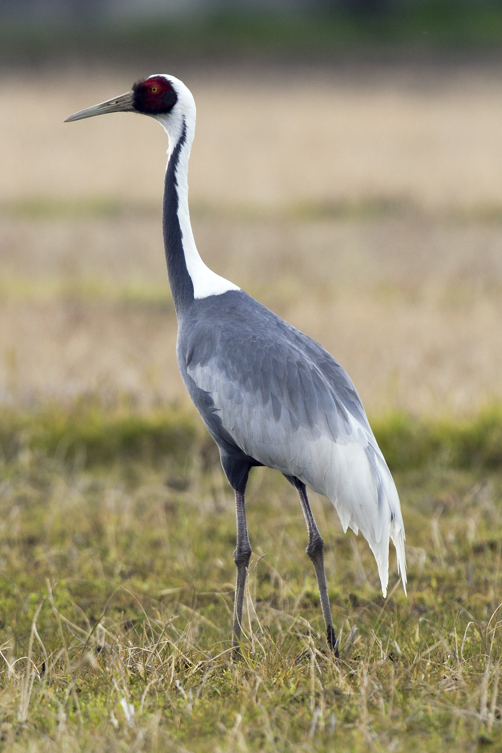 White-naped Crane at Saijo,Ehime